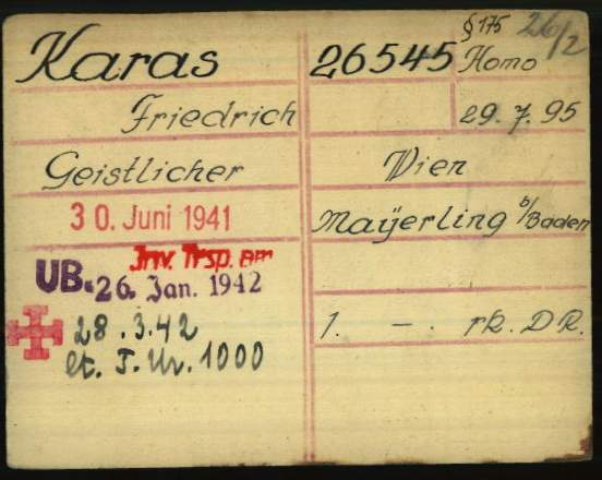 Registration card of Friedrich Karas as a prisoner at Dachau Nazi Concentration Camp. "§175" and "Homo" (top right corner) identify him as a homosexual prisoner. The stamped cross signals the day of his death.